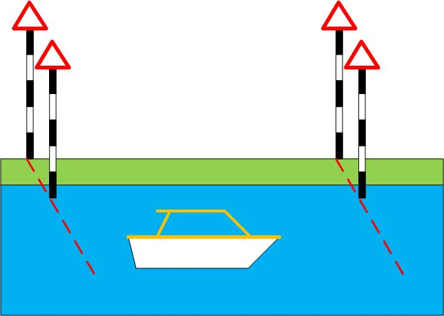 Diagram of navigation transit markers